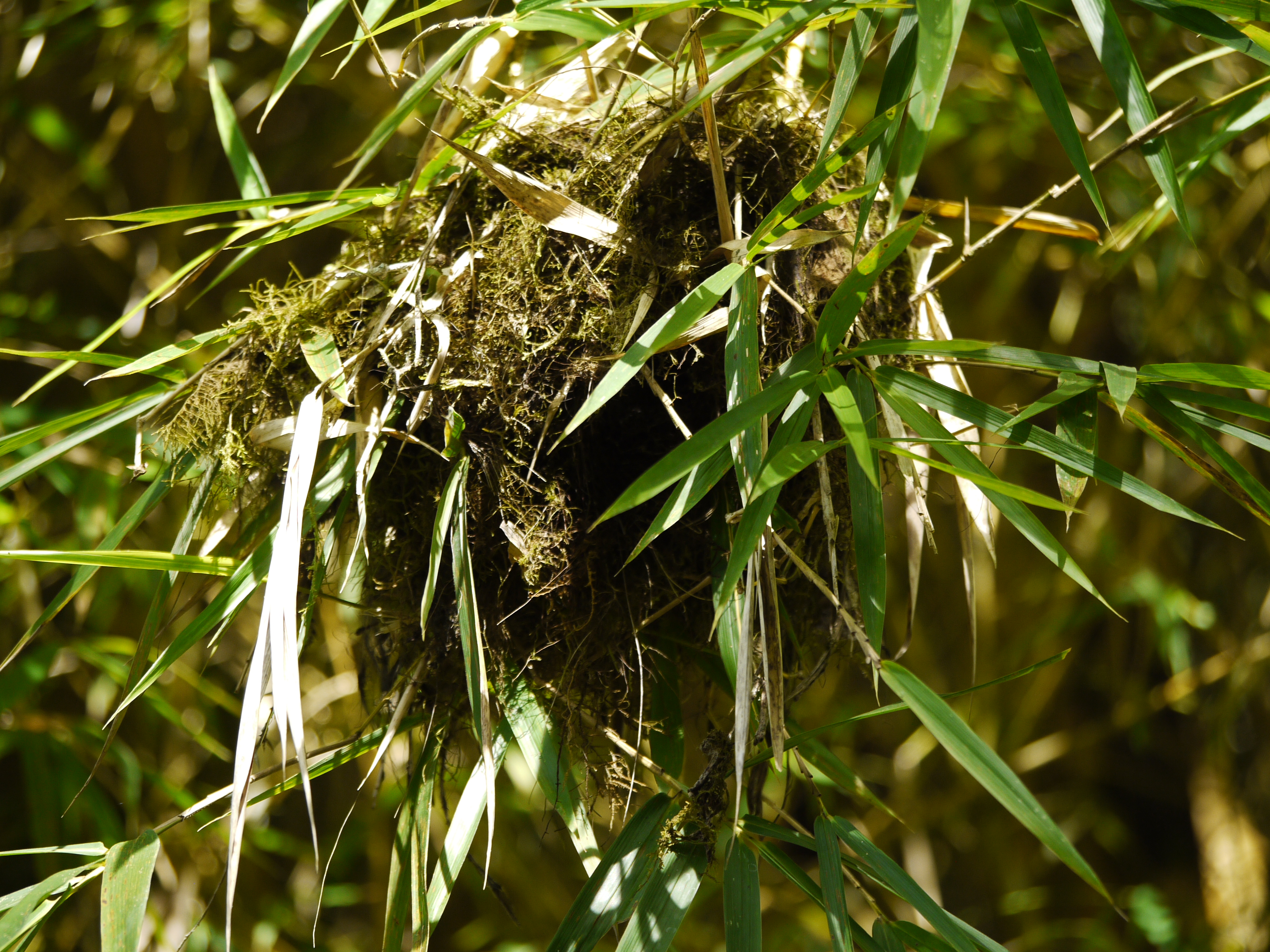 Nest of a Red-faced Spinetail Cranioleuca erythrops, family Furnariidae. This photo was taken by Scott Clark on April 4, 2011 using a Panasonic DMC-G1 at Las Cruces Biological Station, Costa Rica. Scott Clark writes "We saw one of the birds, but couldn't get a picture. Next time..." Scott Clark contributed this earlier copyrighted image by converting to a free license for specific use in the article Structures built by animals, besides in other articles elsewhere.